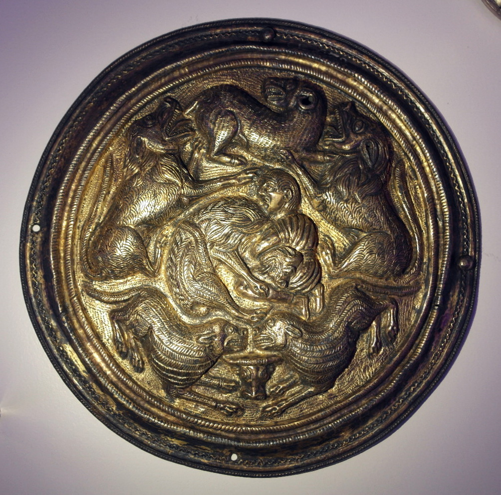 So-called Sierschijf van Helden, an ornamental disc (fibula) made of gilded silver, discovered around 1850 by a peat worker in Helden, Limburg, the Netherlands. The object originates from Thracia, was made around 100 BC or later, and came perhaps to Western Europe via trade with the Celts. The disc depicts animals (lions, dogs, a ram's head, and a bull's head) and could be worn on shields or horses' tack. It is now in the collection of the Rijksmuseum van Oudheden in Leiden. This photo was taken during the temporary exhibition Topstukken van het Rijksmuseum van Oudheden in the Limburgs Museum in Venlo, while the museum in Leiden was closed for renovations.